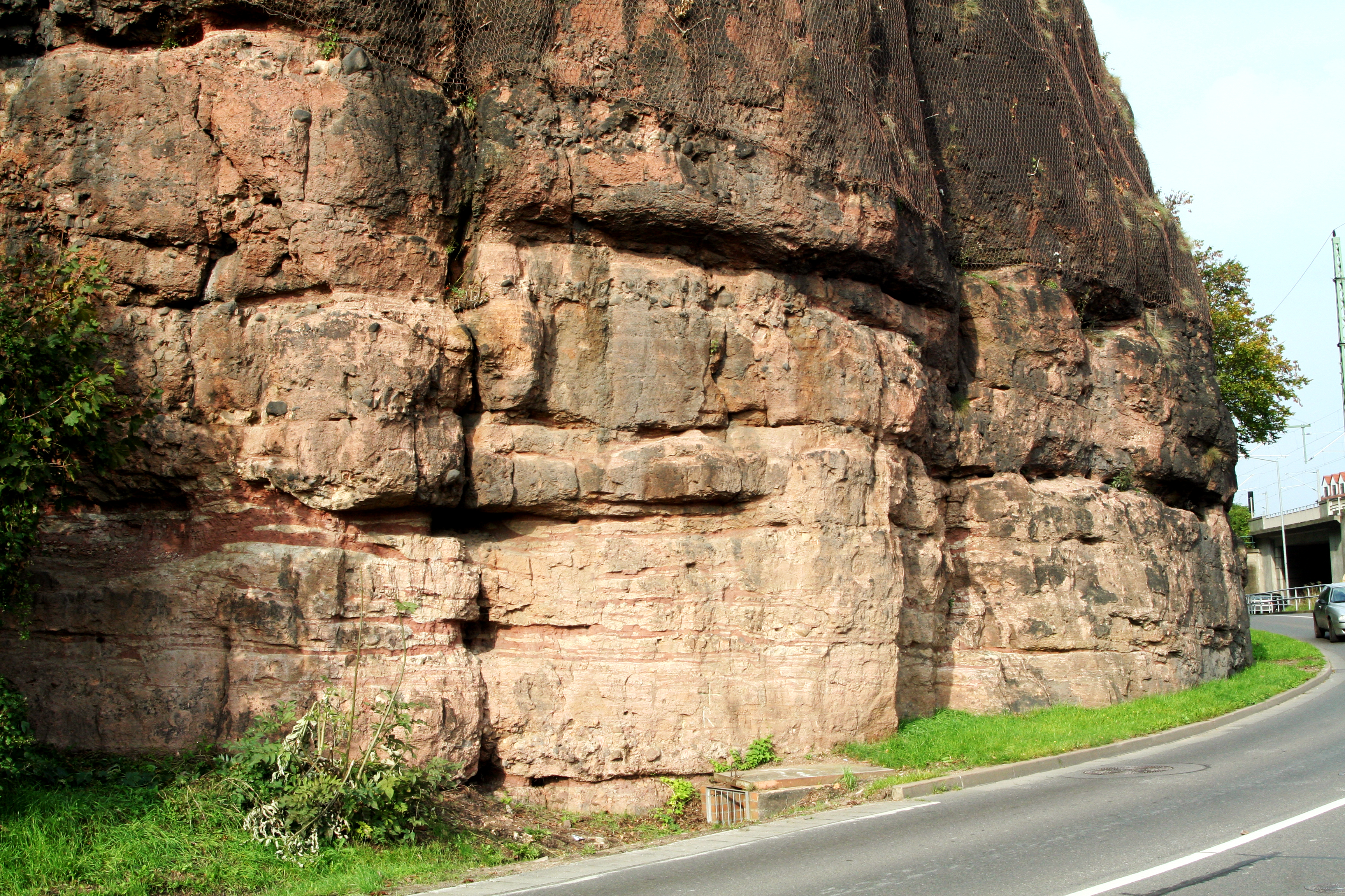 Detail of the Backofen-Felsen (“Baker’s Oven Rock”) at the south-western rim of the town of Freiberg (Saxony, Germany), Döhlen Basin, Bannewitz Formation (Rotliegend series, Lower Permian), showing relatively fine-grained and thinly bedded arcotic sandstones in the lower part of the image. The name of the locality refers to the elongated cave-like features in the rock face which are resulting from the outweathering of less resistant portions of the rock.